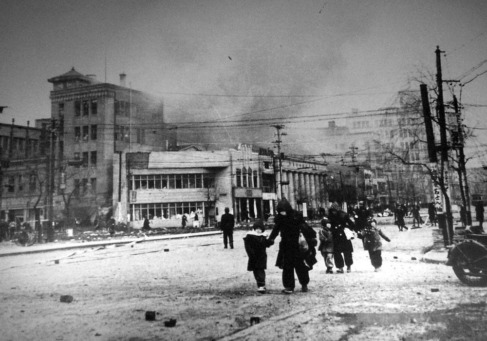 Photo taken by Ishikawa Kōyō(1904-1989) around 27 Jan, 1945.